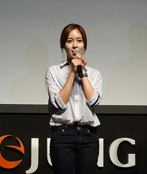 Sung Yu-ri in August 2013